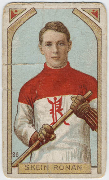 Front of cigarette hockey card of Skene Ronan in the Renfrew uniform. The back is available as File:Skene Ronan hockey card 1 back.jpg.